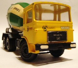 Description Conrad modelauto van een MAN truck DateUnknown dateSourceOwn workAuthorJan Clevering Conrad modelauto van een MAN truck